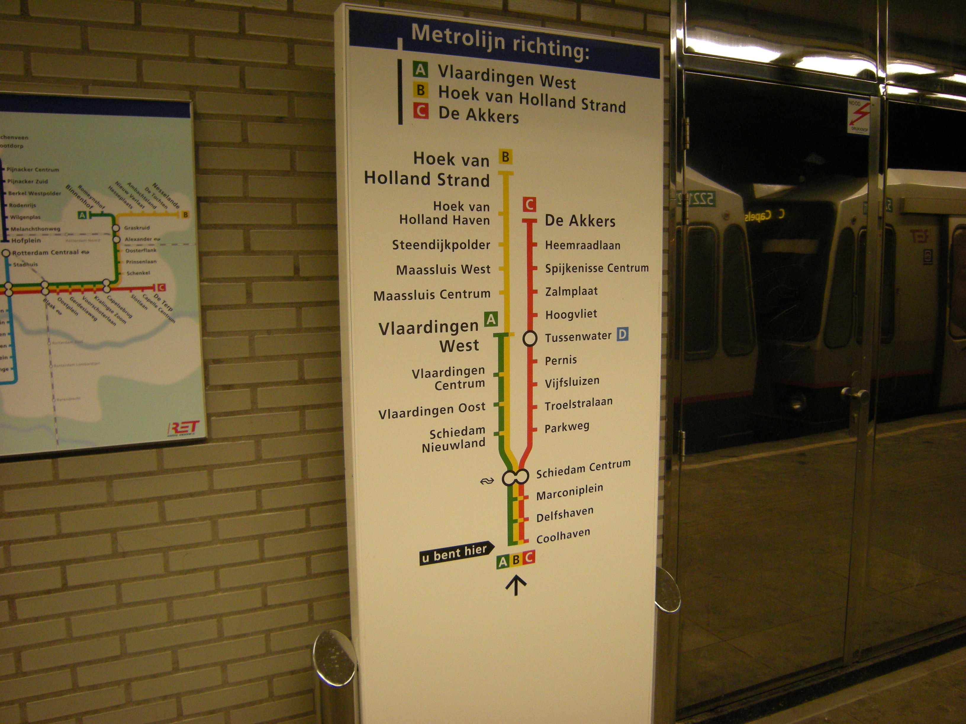 Metro station Coolhaven, Rotterdam, The Netherlands.